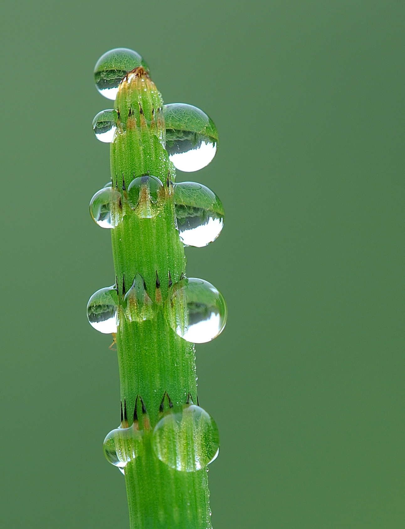 Fresh morning dew on a Equisetum fluviatile in Belgium natural reserve "Marie Mouchon"